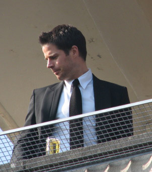 A snapshot of ex-footballer Jamie Redknapp in his private box at the Cheltenham Festival